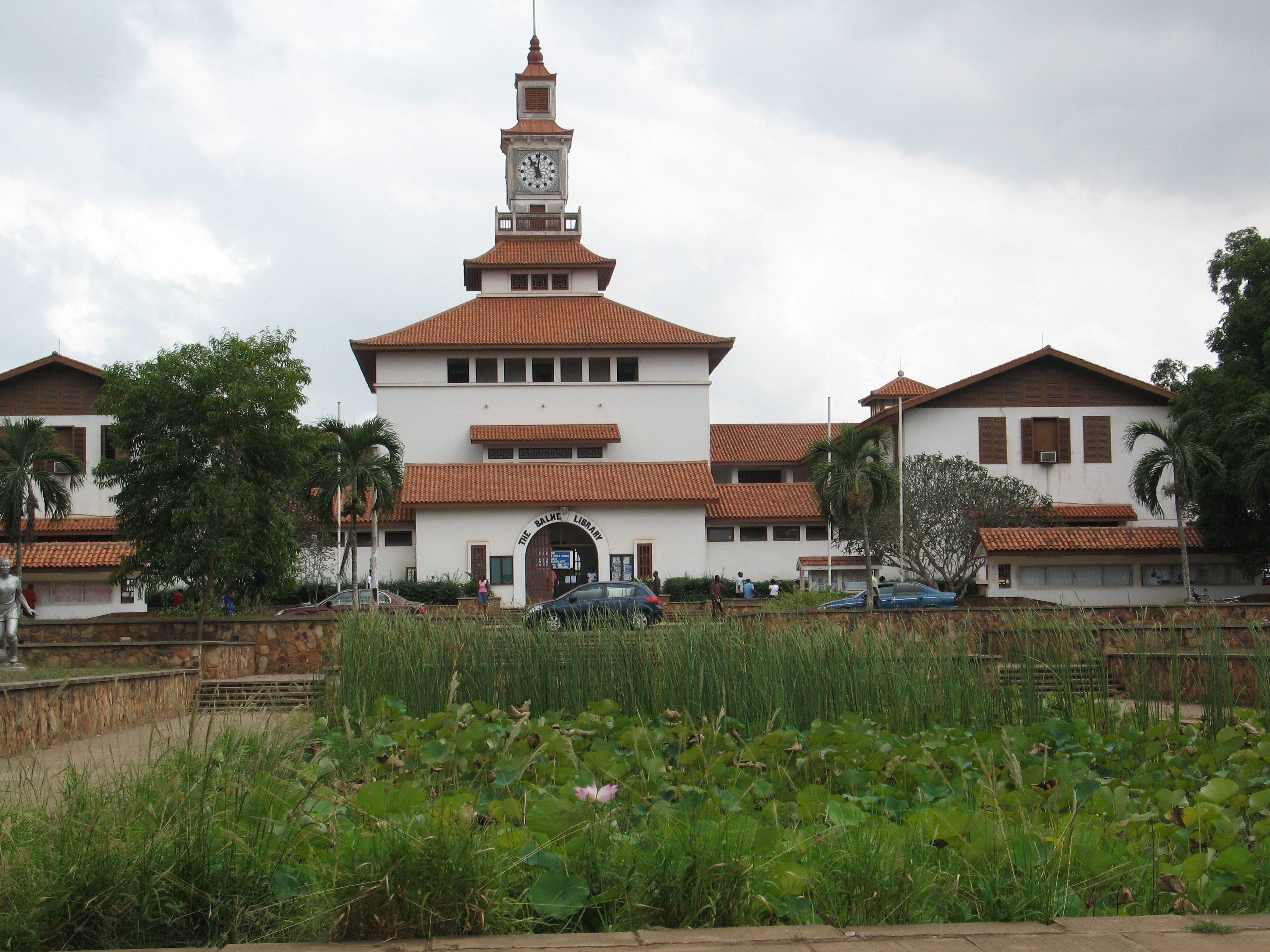 The Balme Library building in Legon Campus, University of Ghana, Accra, Ghana.